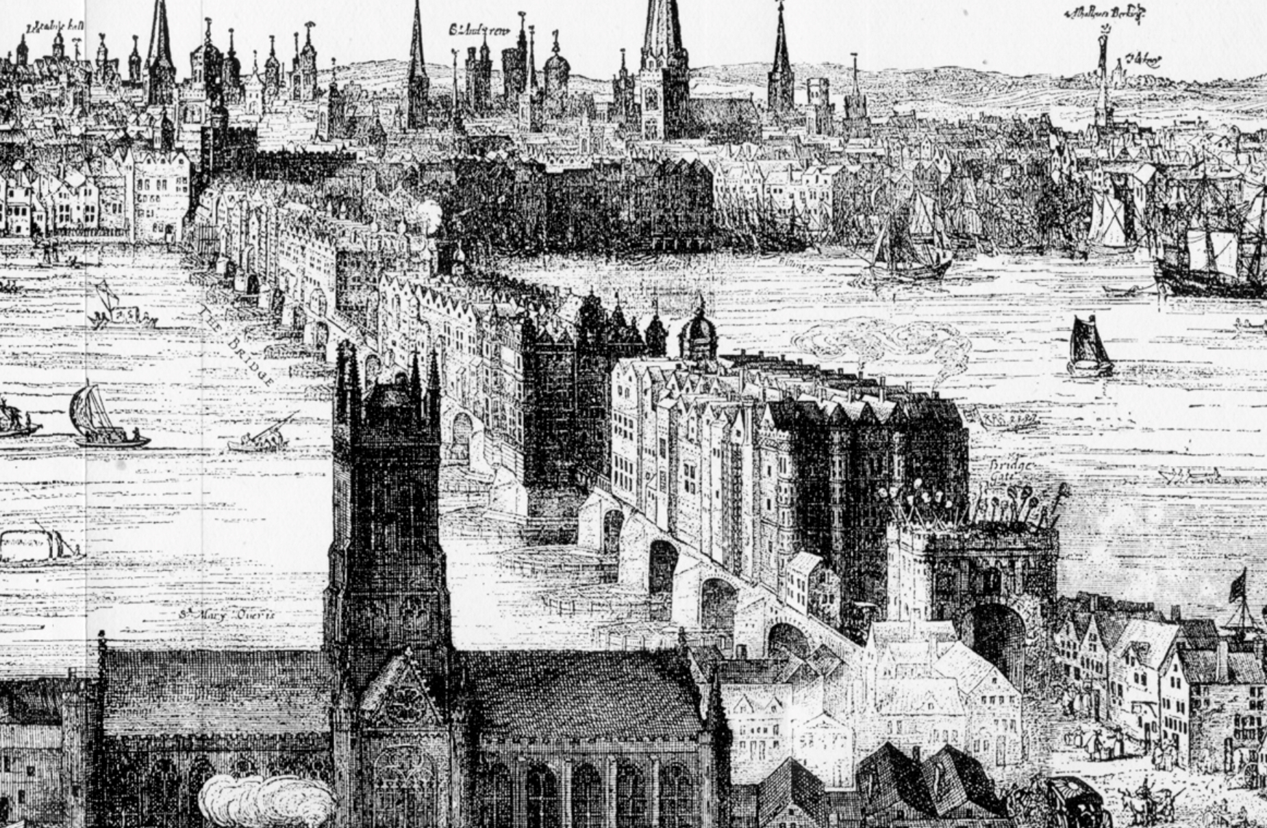 Detail from Image:Panorama of London by Claes Van Visscher, 1616.jpg, made in 1616 by Claes Van Visscher. It shows Old London Bridge in 1616, with Southwark Cathedral in the foreground. The spiked heads of executed criminals can be seen above the Southwark gatehouse.